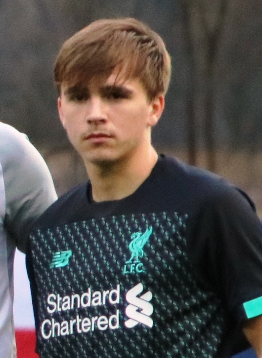 Group stage 6th round